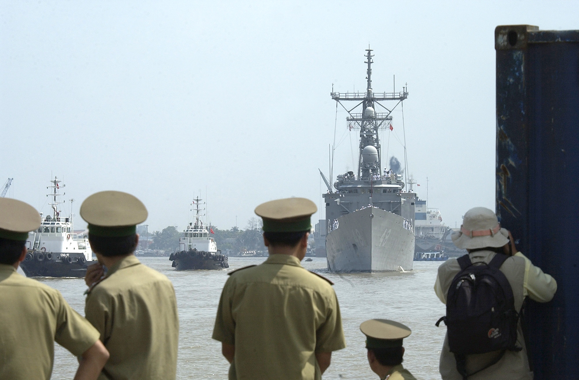 Ho Chi Minh City, Vietnam (Nov. 19, 2003) -- USS Vandegrift (FFG 48) arrives in Ho Chi Minh City, Vietnam, for a scheduled port visit. The port call will provide the crew with an opportunity for sightseeing and cultural exchanges. This visit marks the first U.S. Navy ship visit to Vietnam in 30 years, since 1973. It symbolizes the normalization of relations between the two nations. Vandegrift is an Oliver Hazard Perry Class guided missile frigate and is a part of the USS Kitty Hawk (CV 63) Carrier Strike Group, forward deployed to Yokosuka, Japan. U.S. Navy photo by Photographer's Mate 3rd Class Gary B. Granger. (RELEASED)